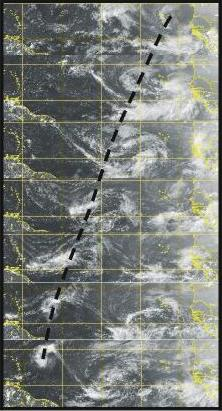 Sequence of daily GOES 8 visible satellite images taken at 1745 UTC 13 (top) to 18 (bottom) August, 2000. Dash line shows the westward propagation of the system center.